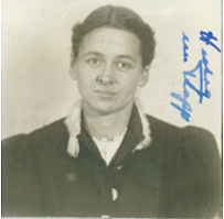 Hedwig von Trapp from her naturalization application